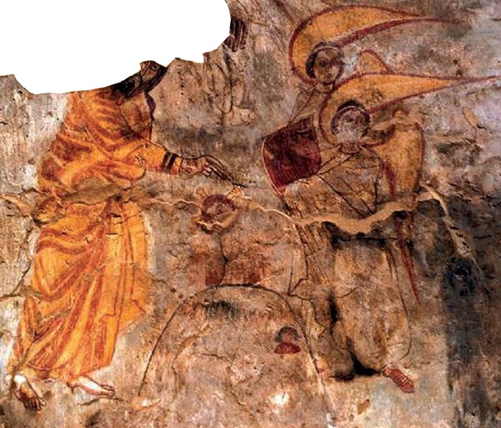 Unique painting from Kom H in Old Dongola showing the baptism of Christ.